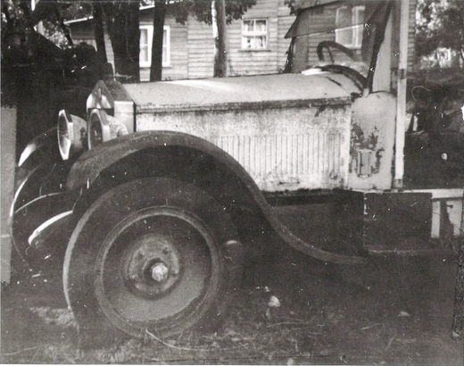 Front view of an Australian Six automobile (number A357)